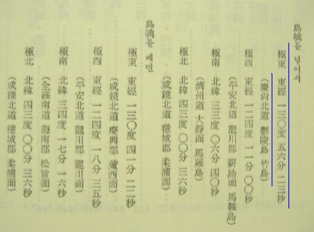 Korean book in 1948"General Knowledge about Joseon" Choe Nam-seon